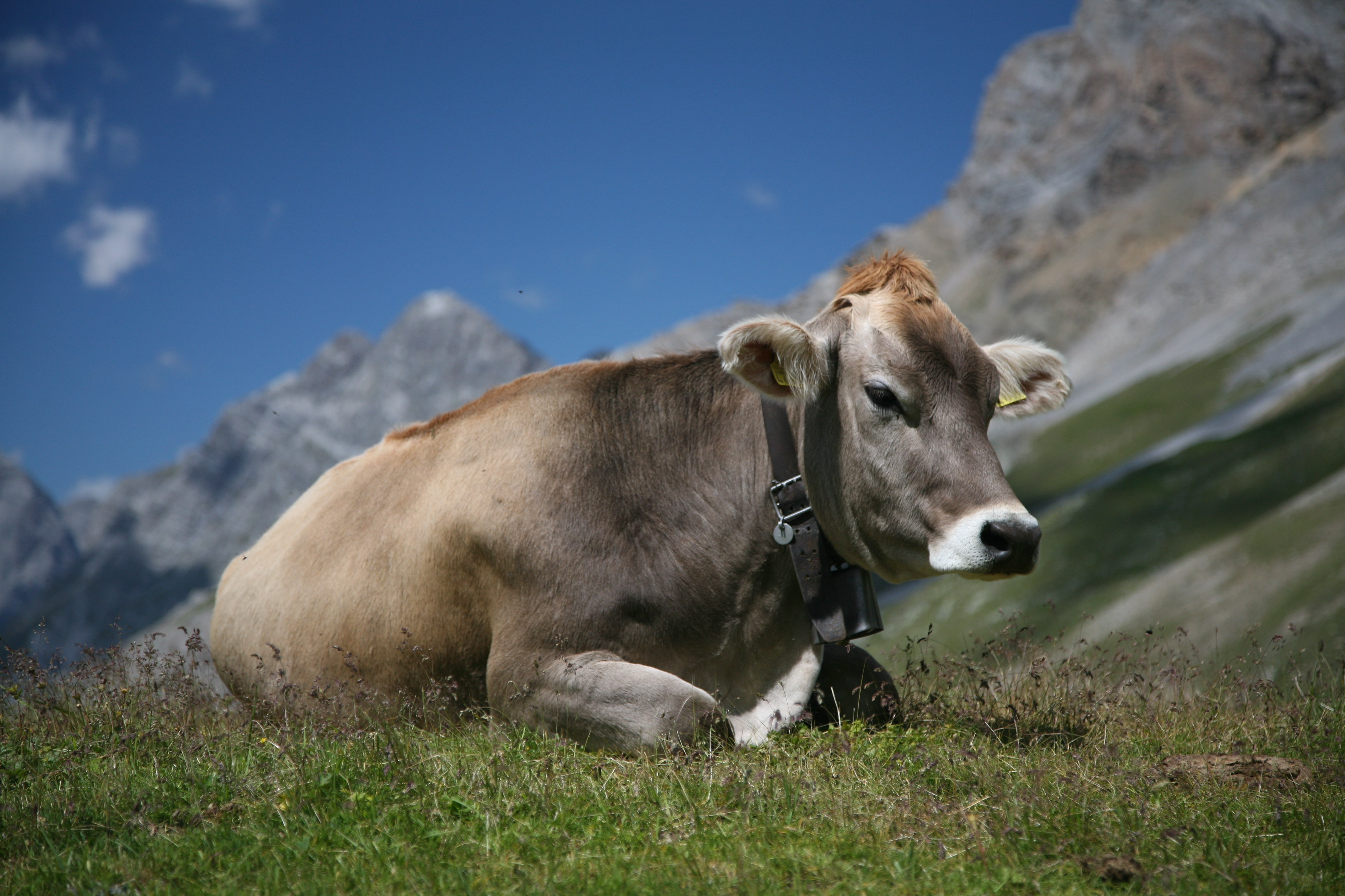 Cow (Swiss Braunvieh breed), below Fuorcla Sesvenna in the Engadin, Switzerland.